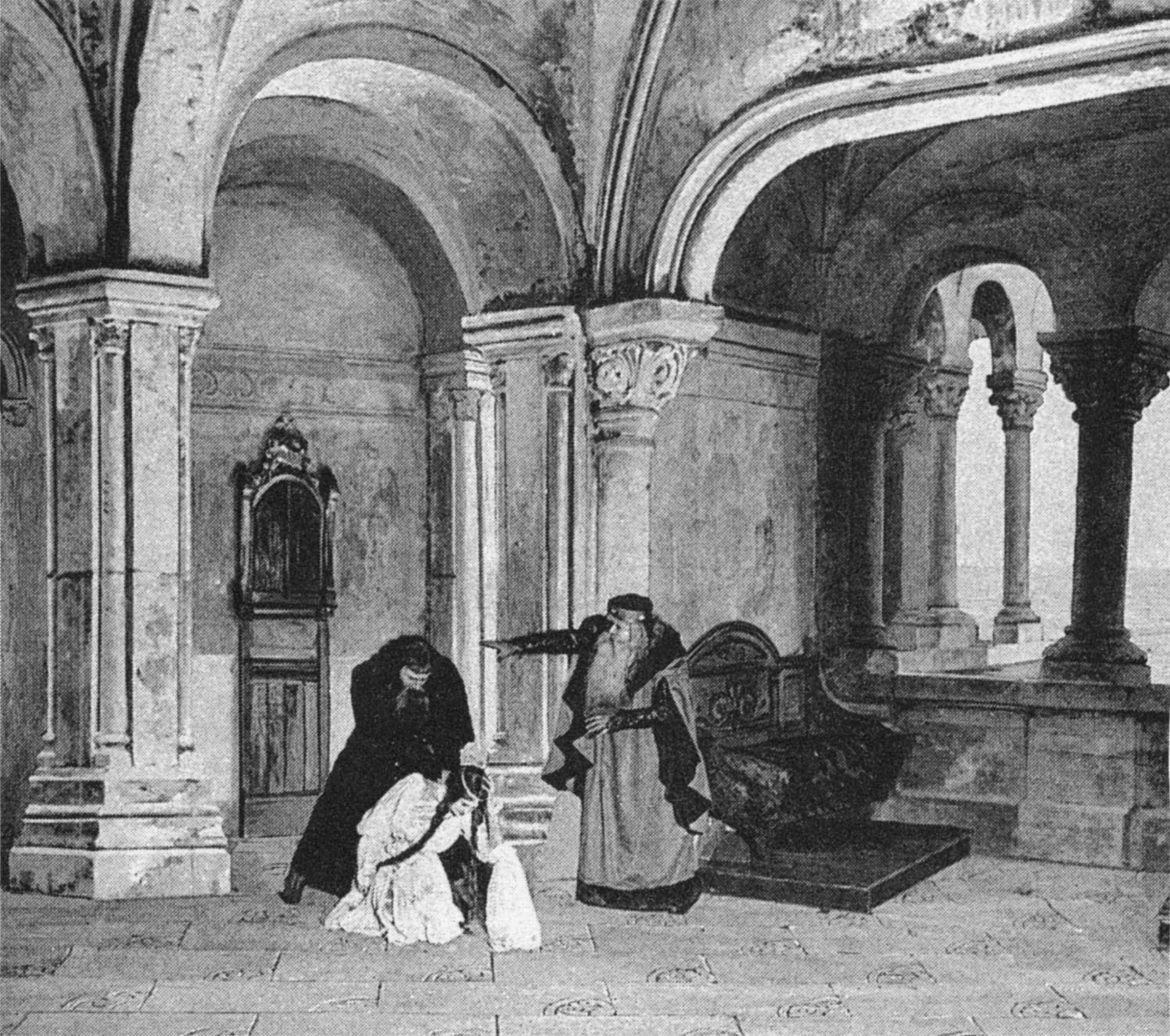 Photograph of Act 4 of the original 1902 production of Debussy's Pelléas et Mélisande, published in Le Théâte, June 1902